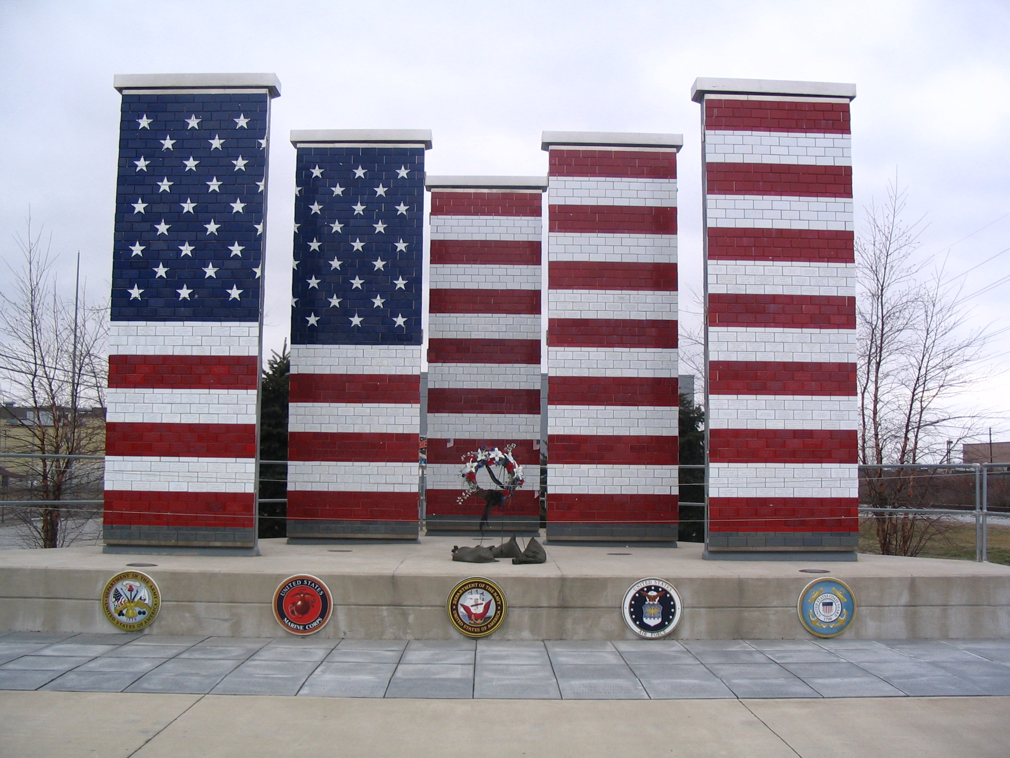 The Veterans Freedom Flag Monument located at Joint Systems Manufacturing Center in Lima, OH. The monument consists of 5 brick walls, each of them 20 feet in height. The five walls are arranged in a V-shaped formation. Each wall represent each of the 5 main branches of the US Armed Forces. Each individual brick is dedicated to a local veteran or organization from each branch. The seals of the five branches are visible below their respective walls.